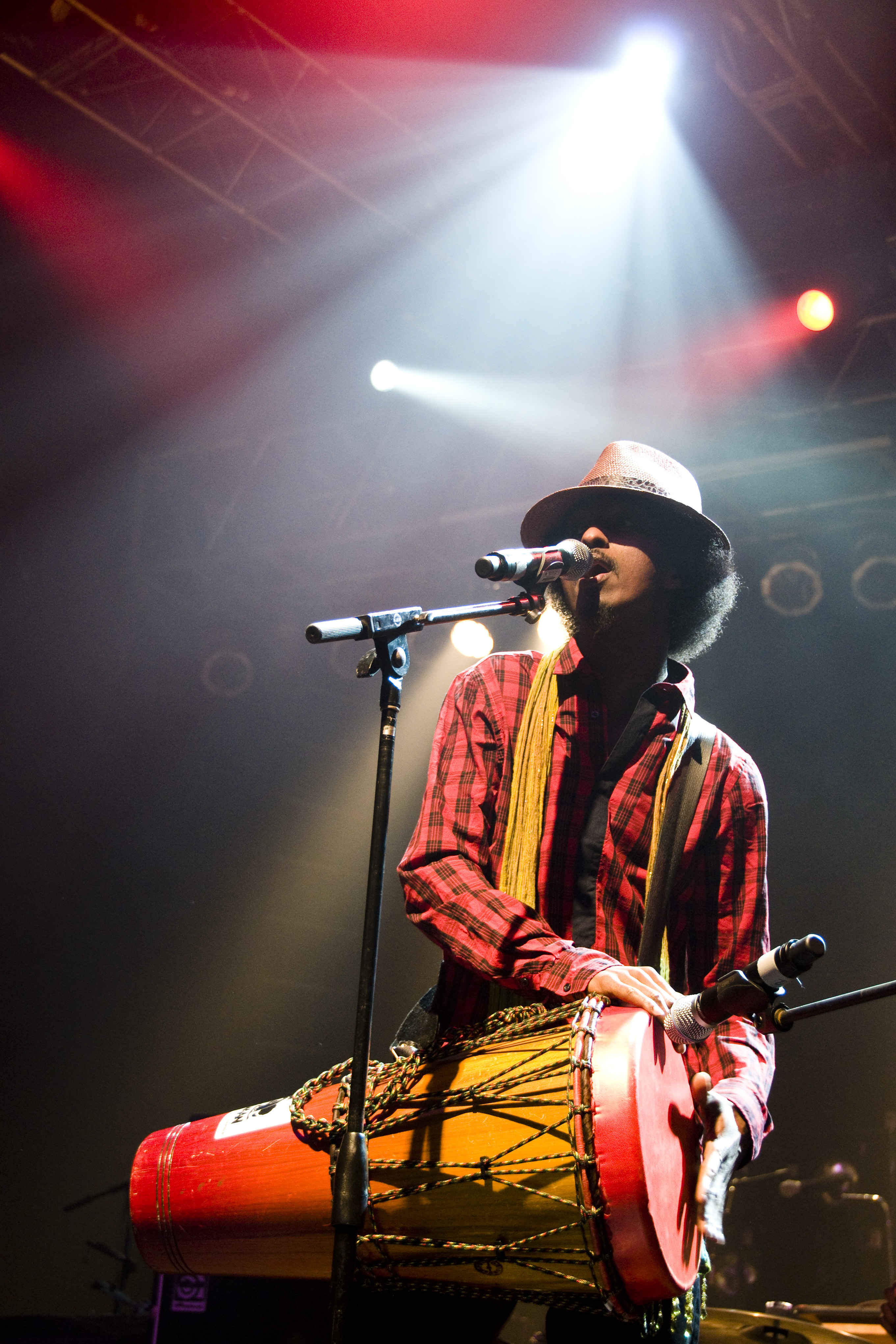 K'naan performing at the Austin Music Hall during SXSW, March 2009